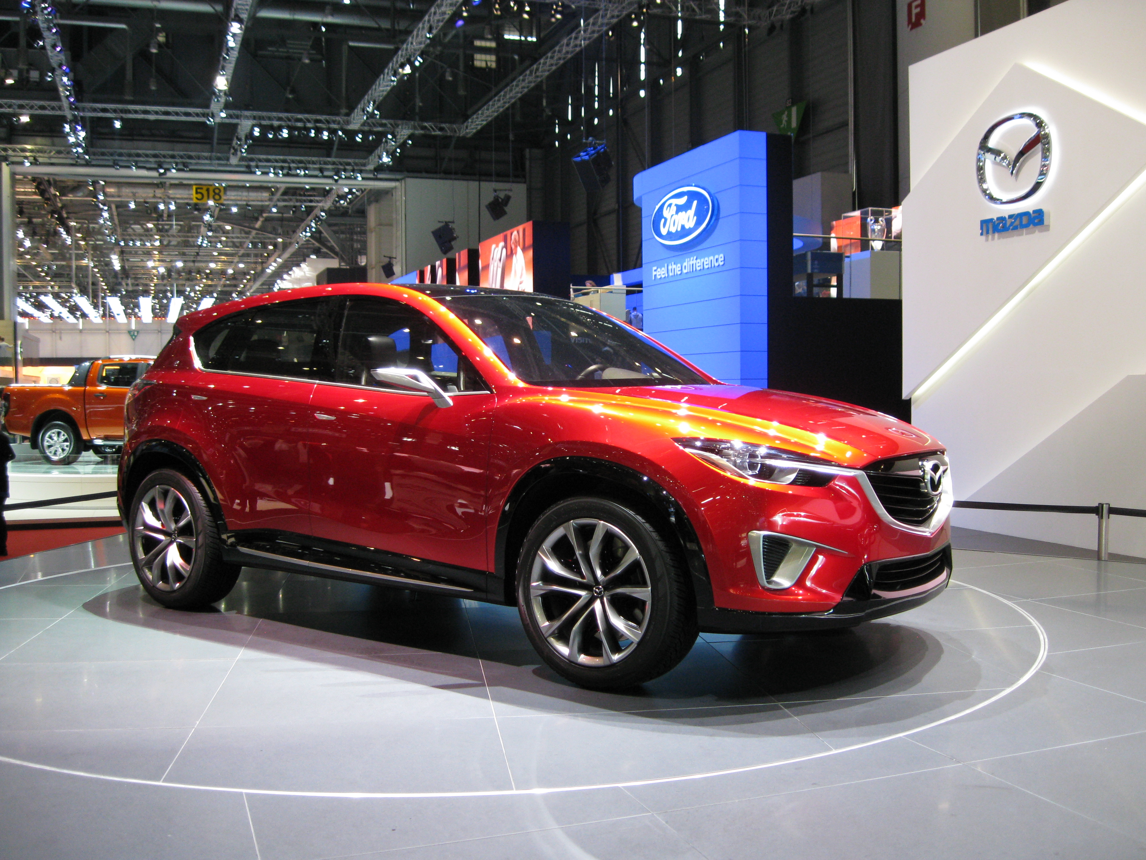 Geneva Motor Show 2011